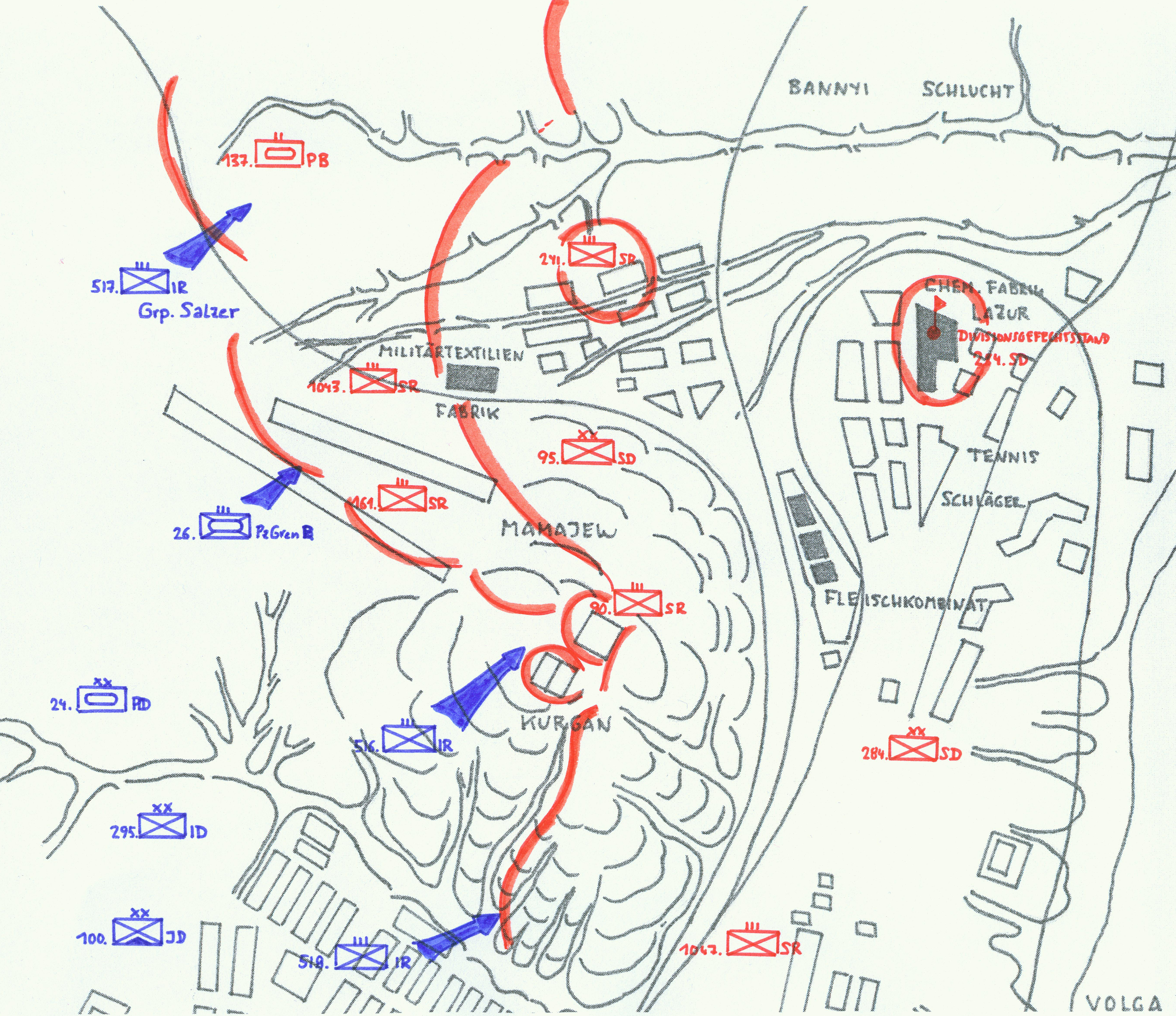 sketch drawn-out according to Glantz